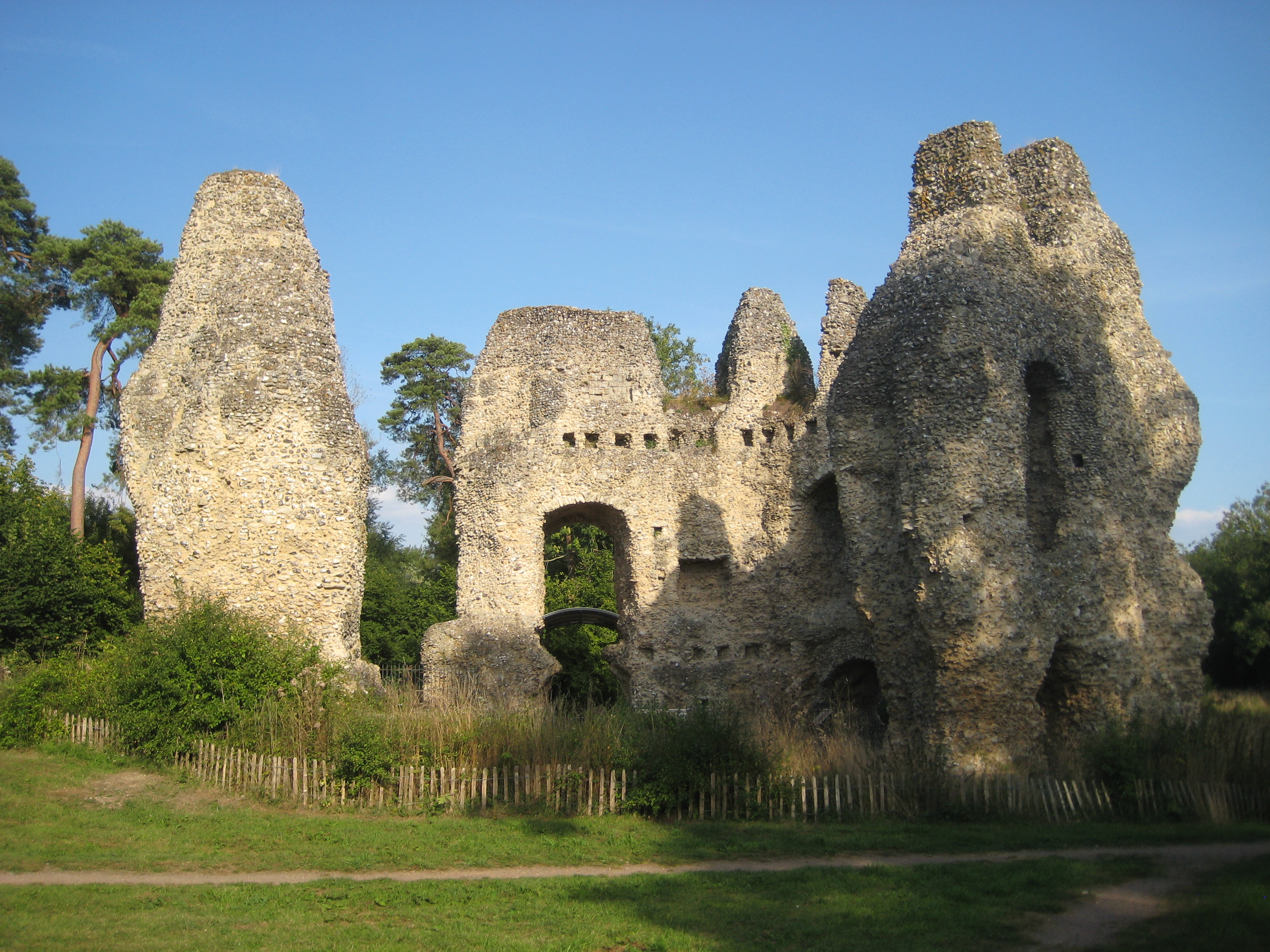 View of Odiham Castle (also known as King John's Castle), North Warnborough, Hampshire.